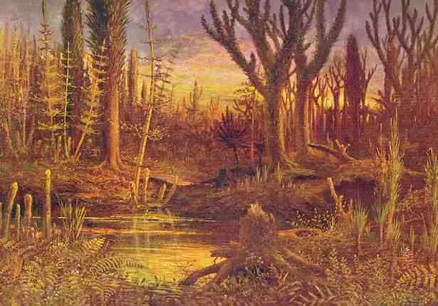 Artistic depiction of early Devonian land-flora.